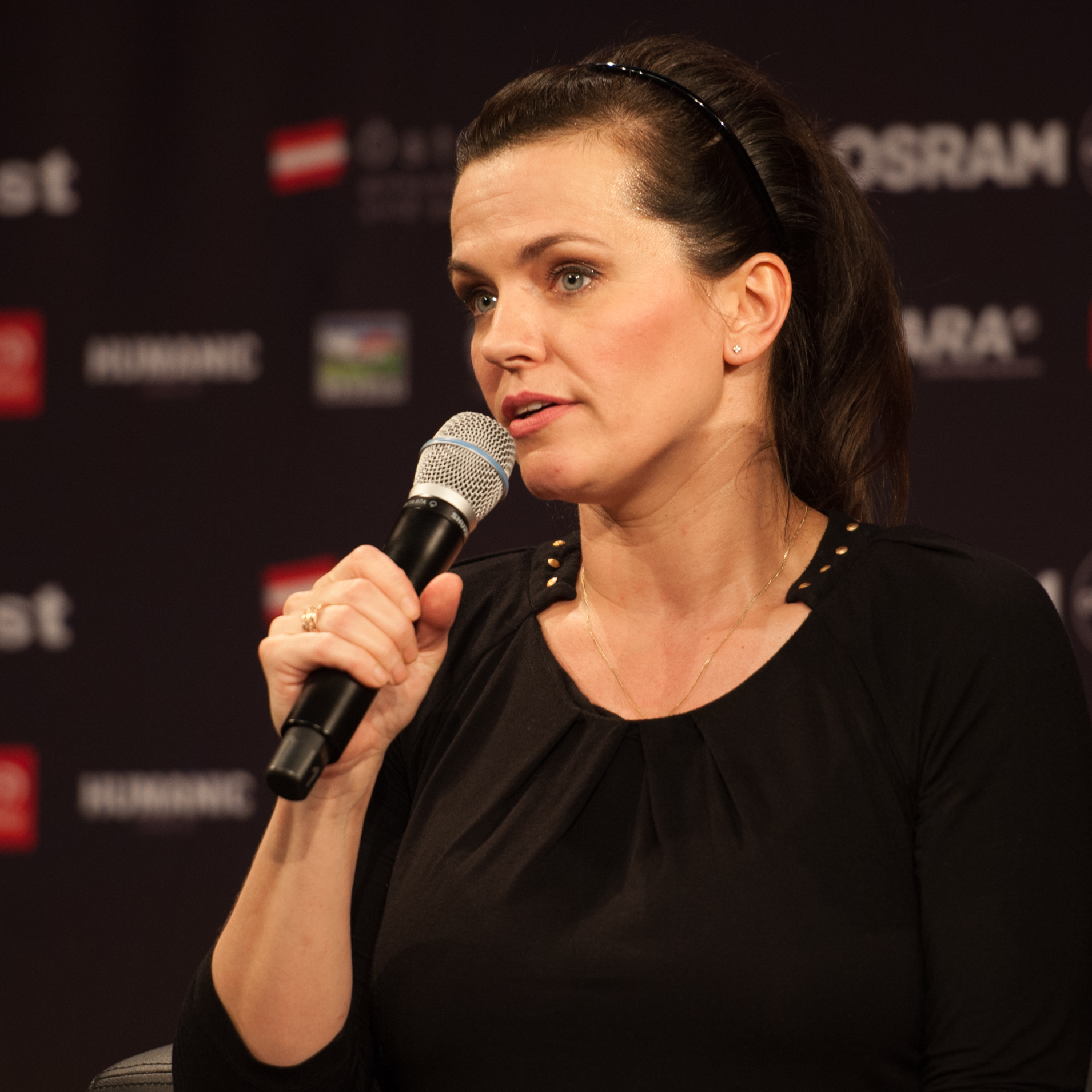 Eurovision Song Contest Vienna 2015: Marta Jandová